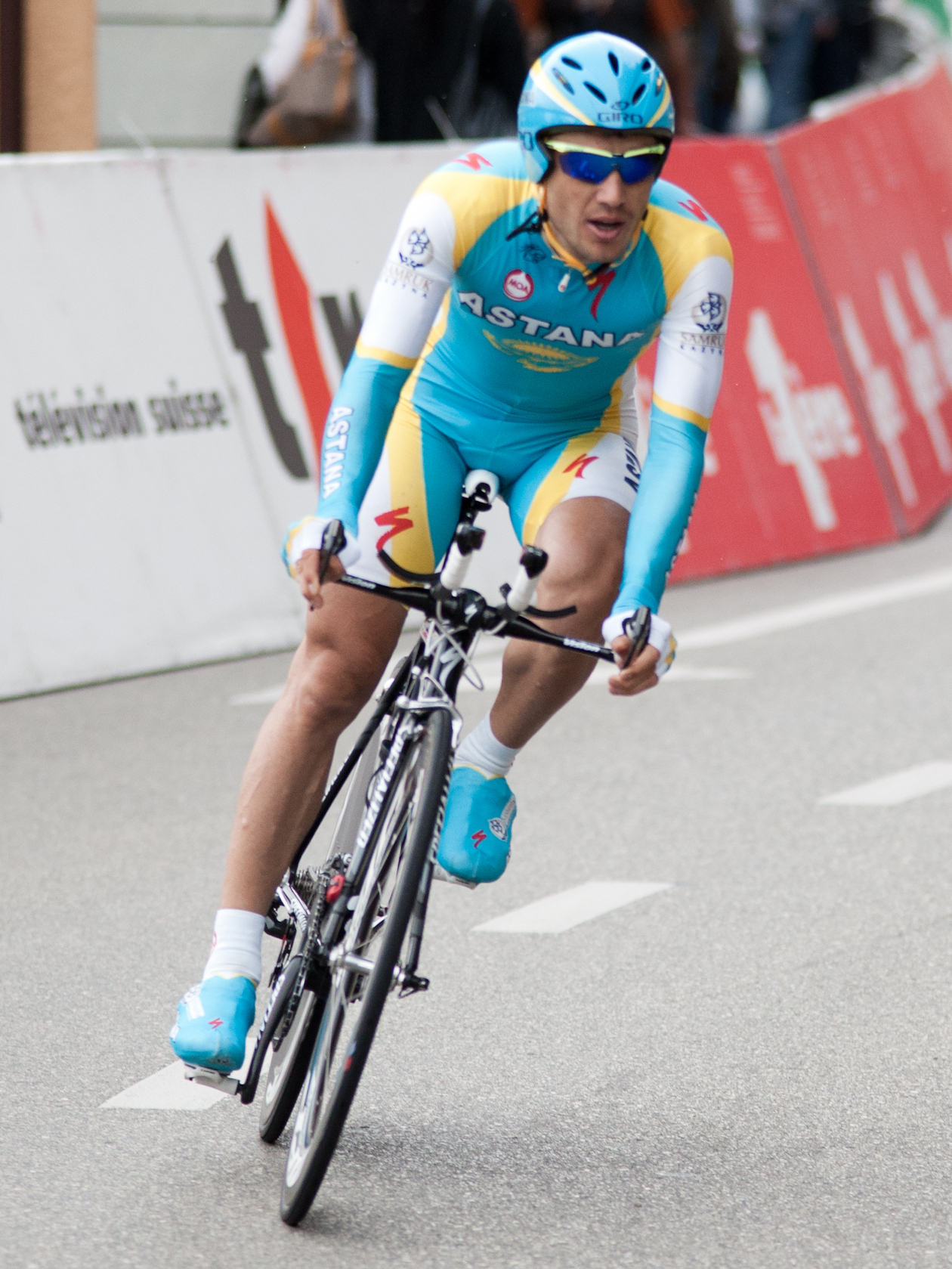 Alexandr Dyachenko during the 3rd stage of the Tour de Romandie 2010.